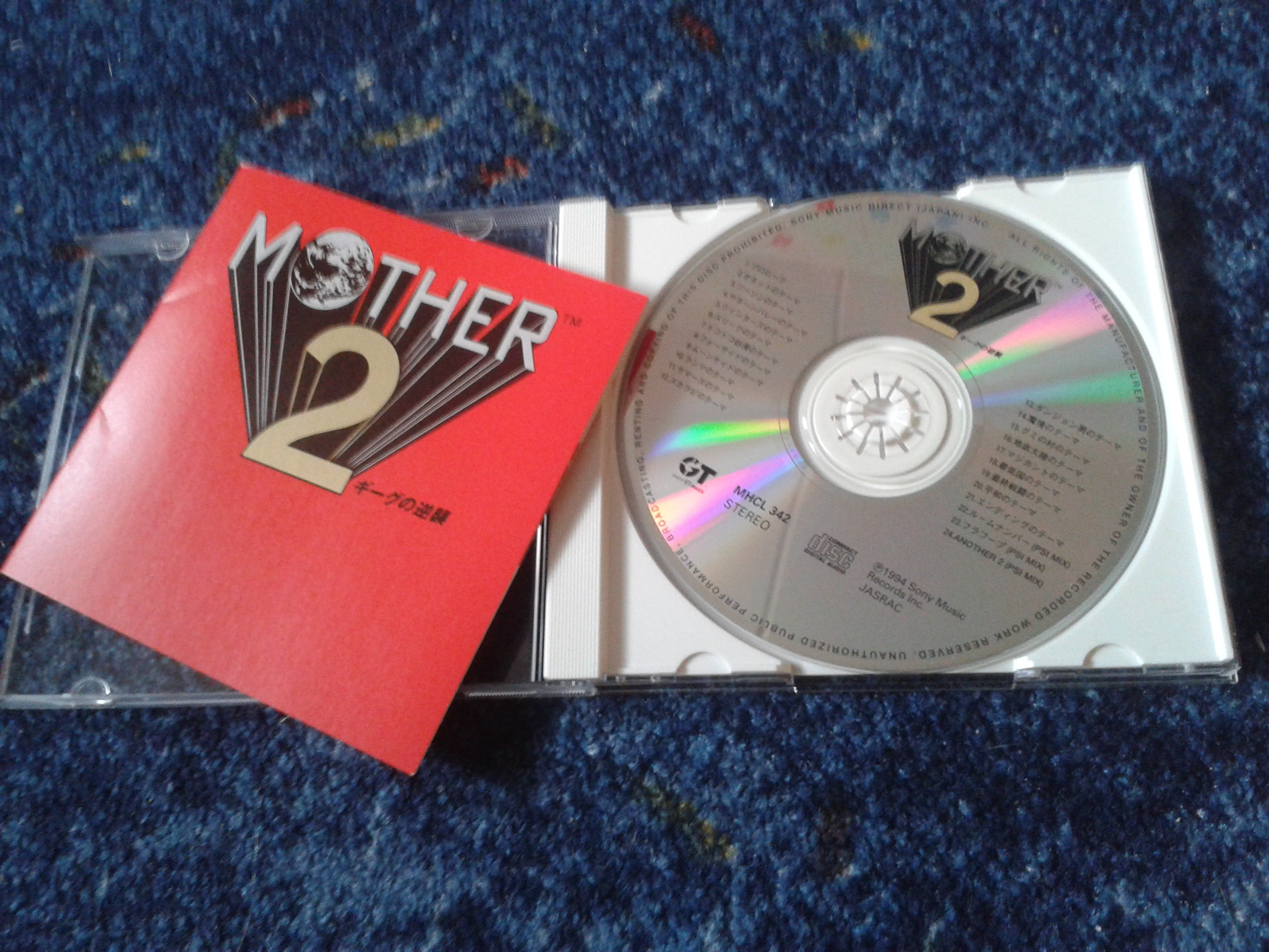 Packaging, cover and disc of the soundtrack of mother 2, titled Mother 2: Gyiyg no Gyakushū. Known as Earthbound in the western world, the game's soundtrack has only been released in Japan.